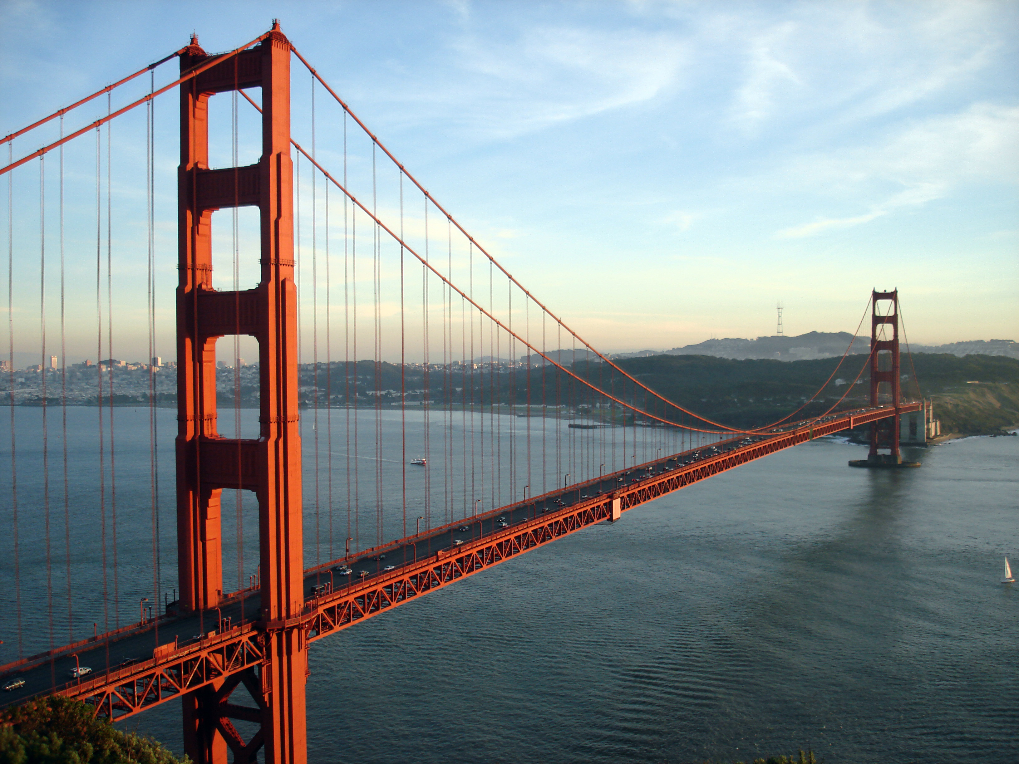 The Golden Gate Bridge and San Francisco, CA at sunset. This photo was taken from the Marin Headlands